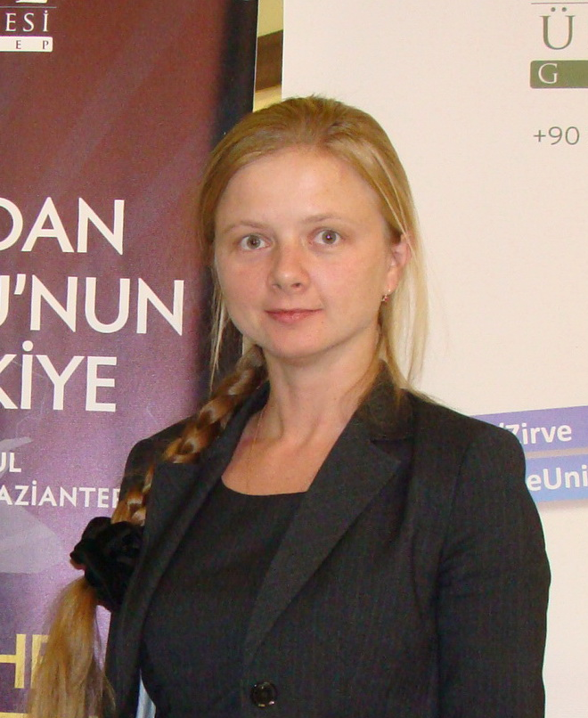 Photo of Starobub Tetiana